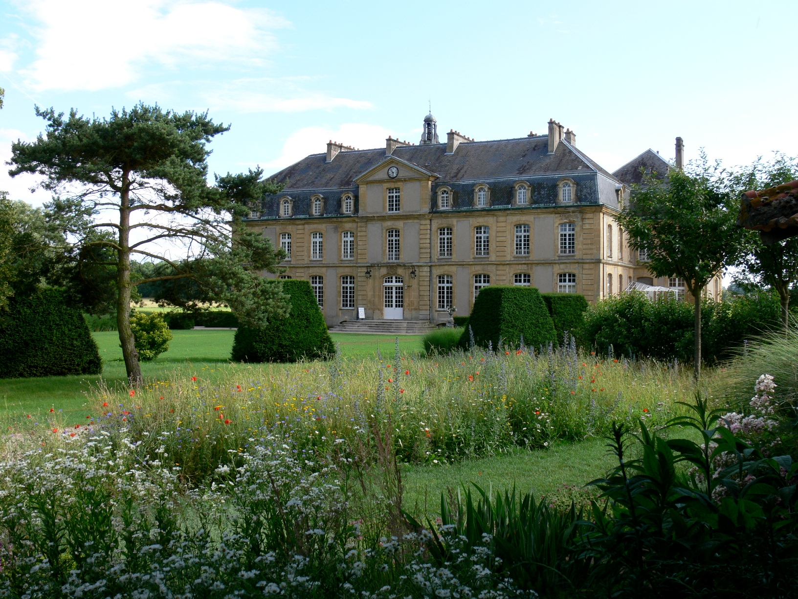 Castel of Pange, Lorraine, France